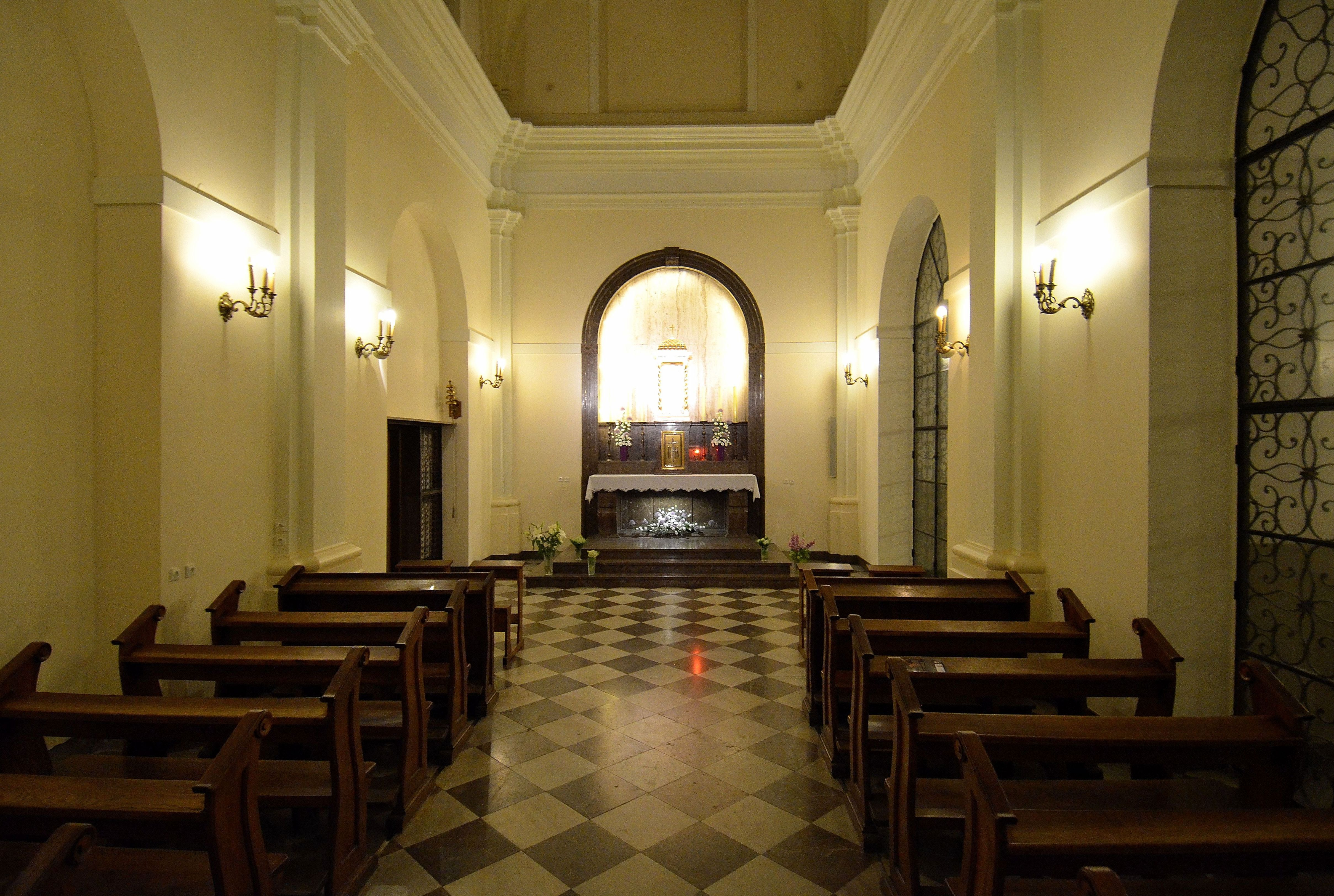 Chapel in the aisle in the jesuit (Our Lady of Graces) church in Warsaw